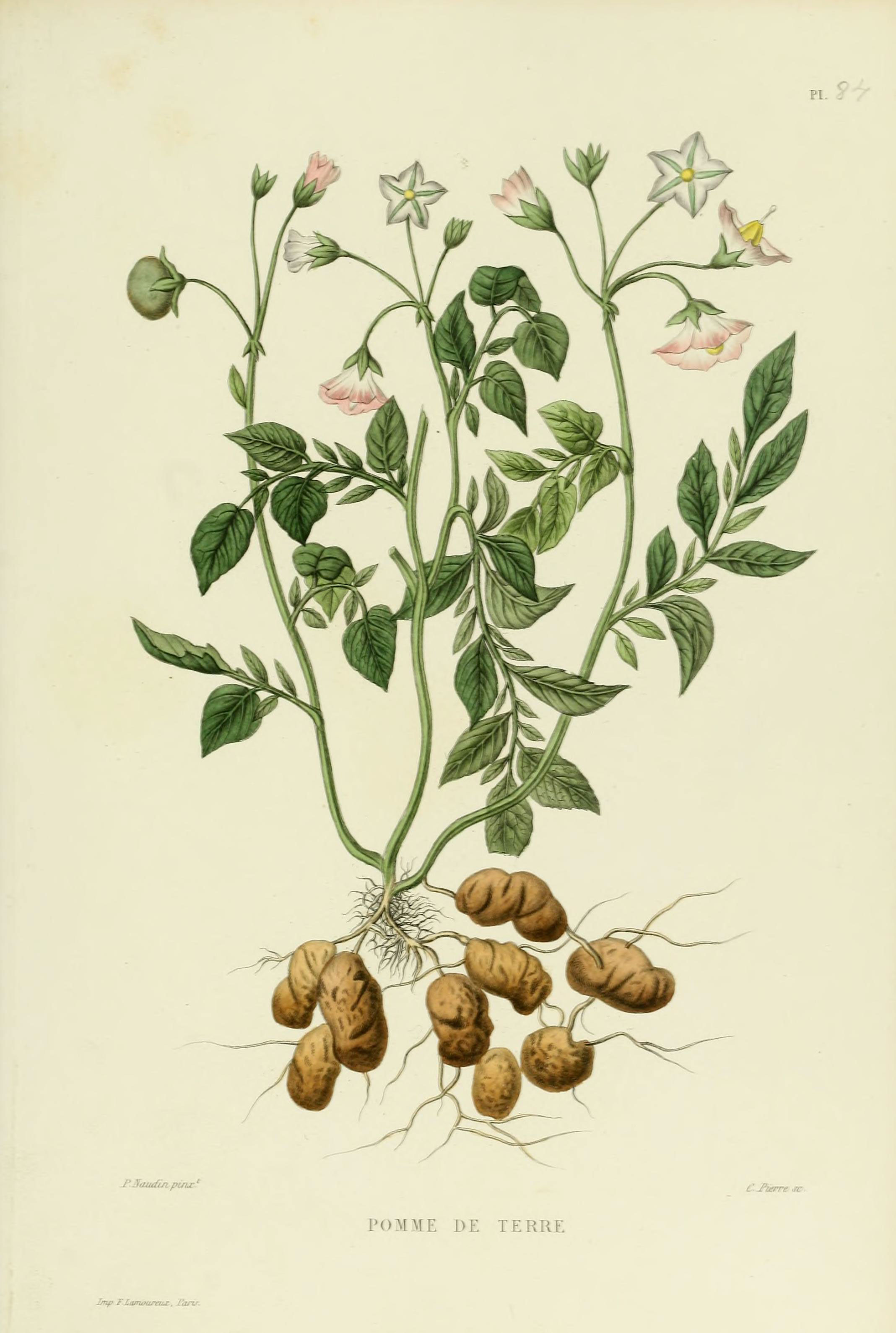 PL I* Jaudin ptnz' C- J^rre ov l'OMME DE TERRE ^mp T Lafrw(mu£, Fanf.